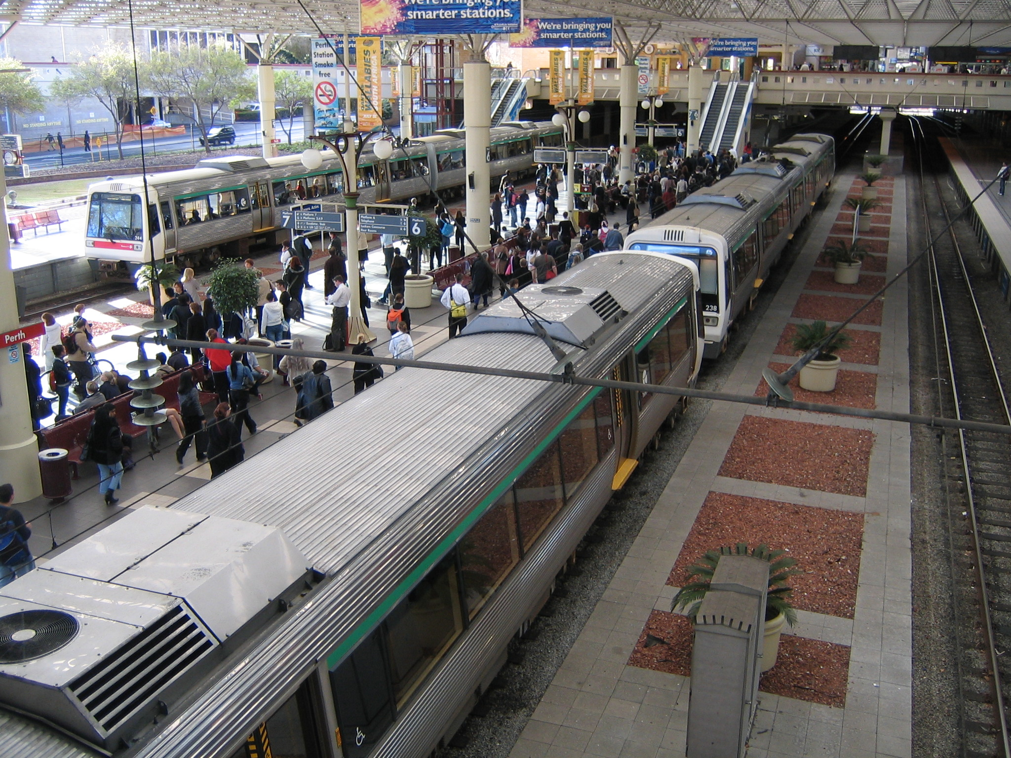 Perth Railway Station, Western Australia in 2004.